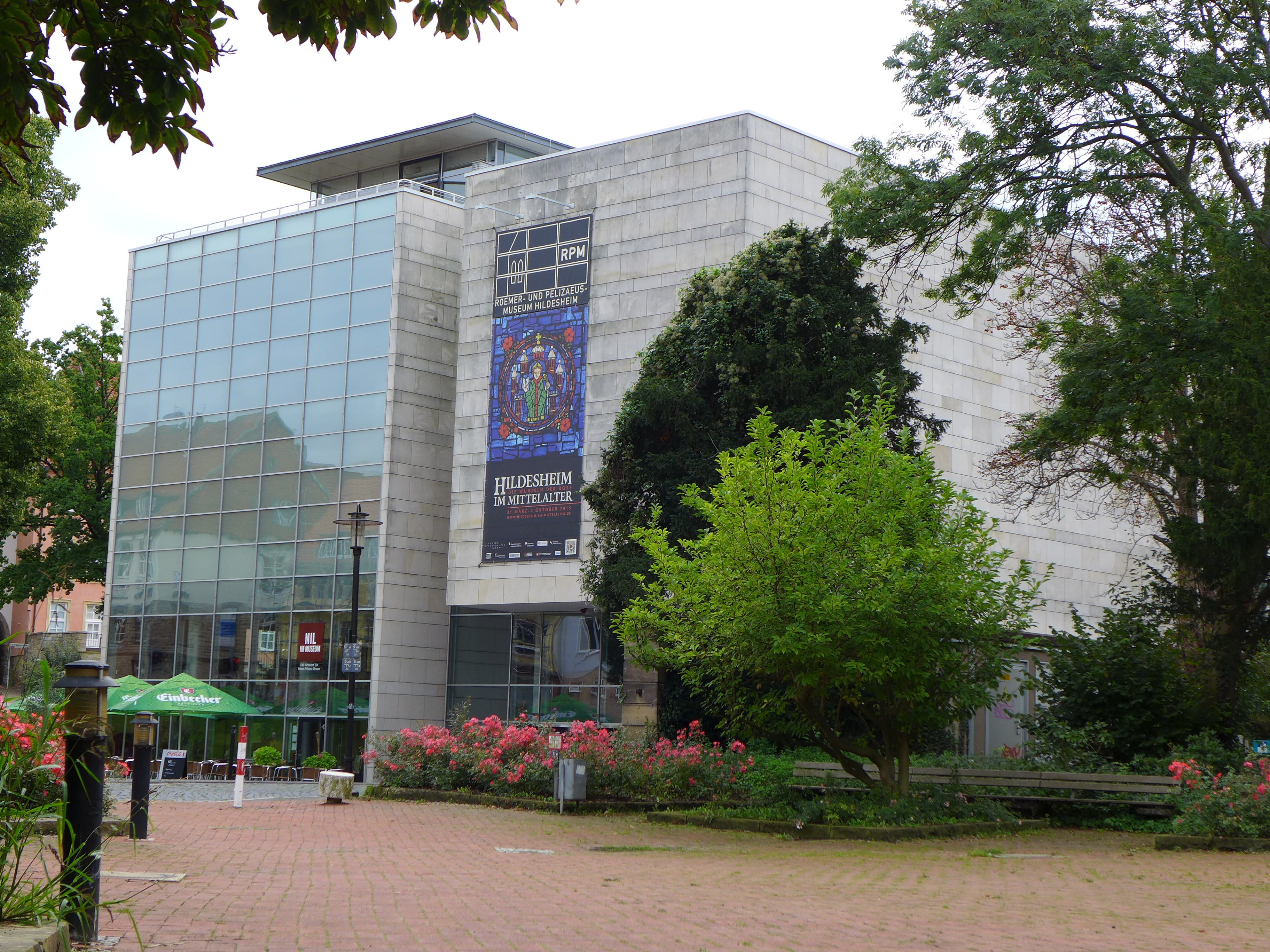 museum in Hildesheim